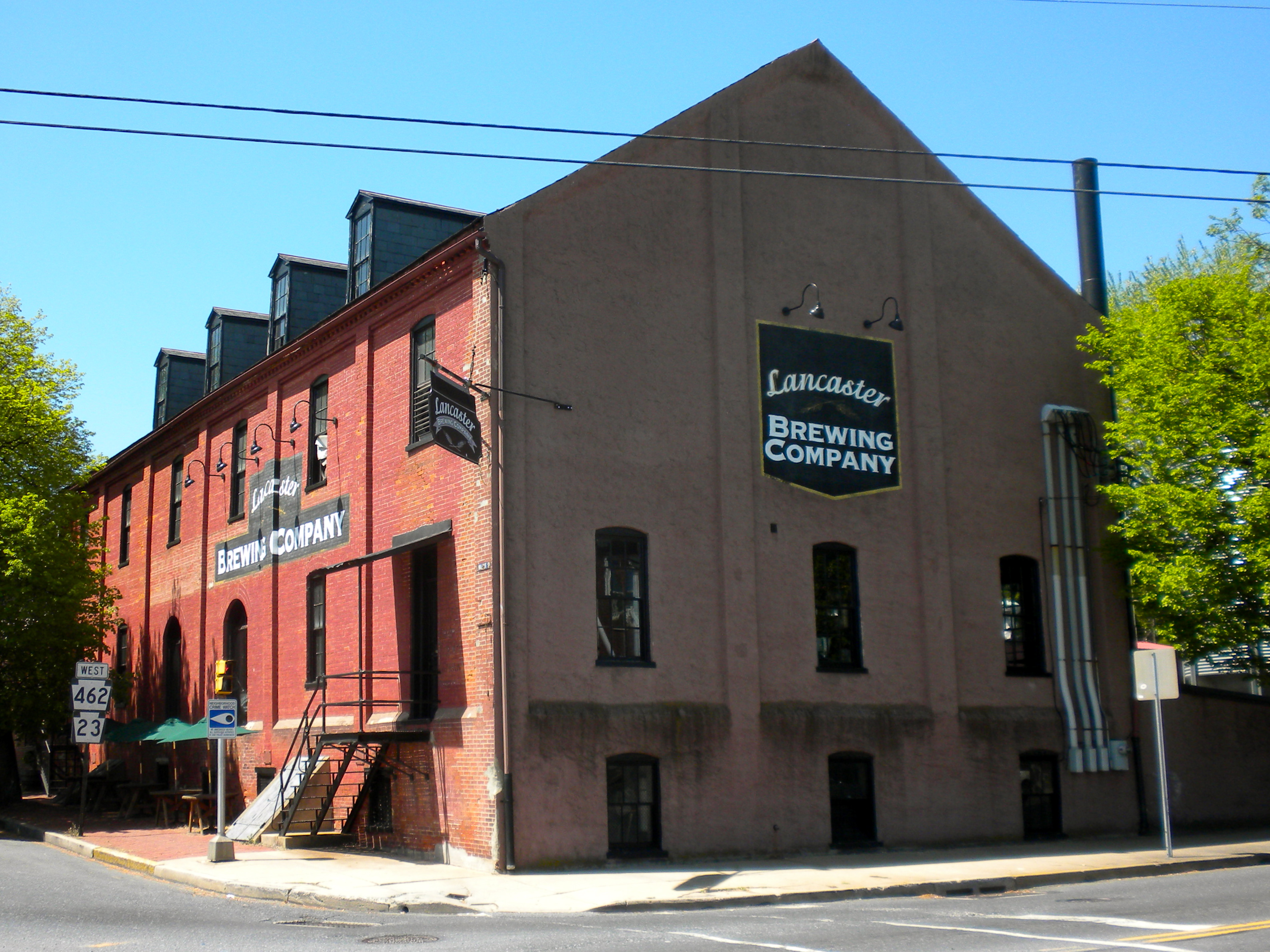 Edward McGovern Tobacco Warehouse, now home to the Lancaster Brewing Company, on the NRHP since September 21, 1990. At 302–304 North Plum Street in the city of Lancaster, Pennsylvania. The brewer also runs a restaurant in the building.